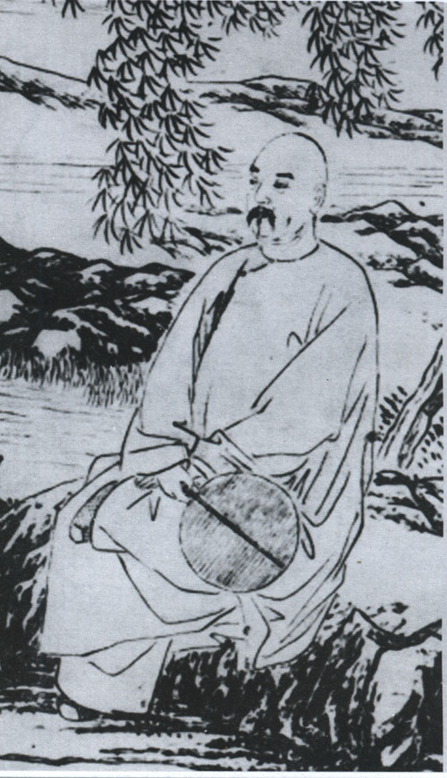 Li Mengqun, politician of the Qing Dynasty.